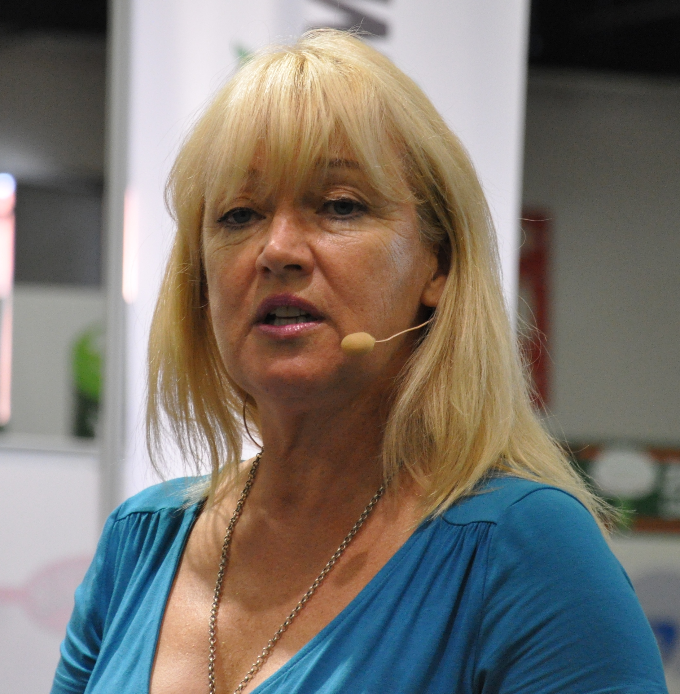 Finnish actor Jaana Saarinen at Turku Fair 2009.